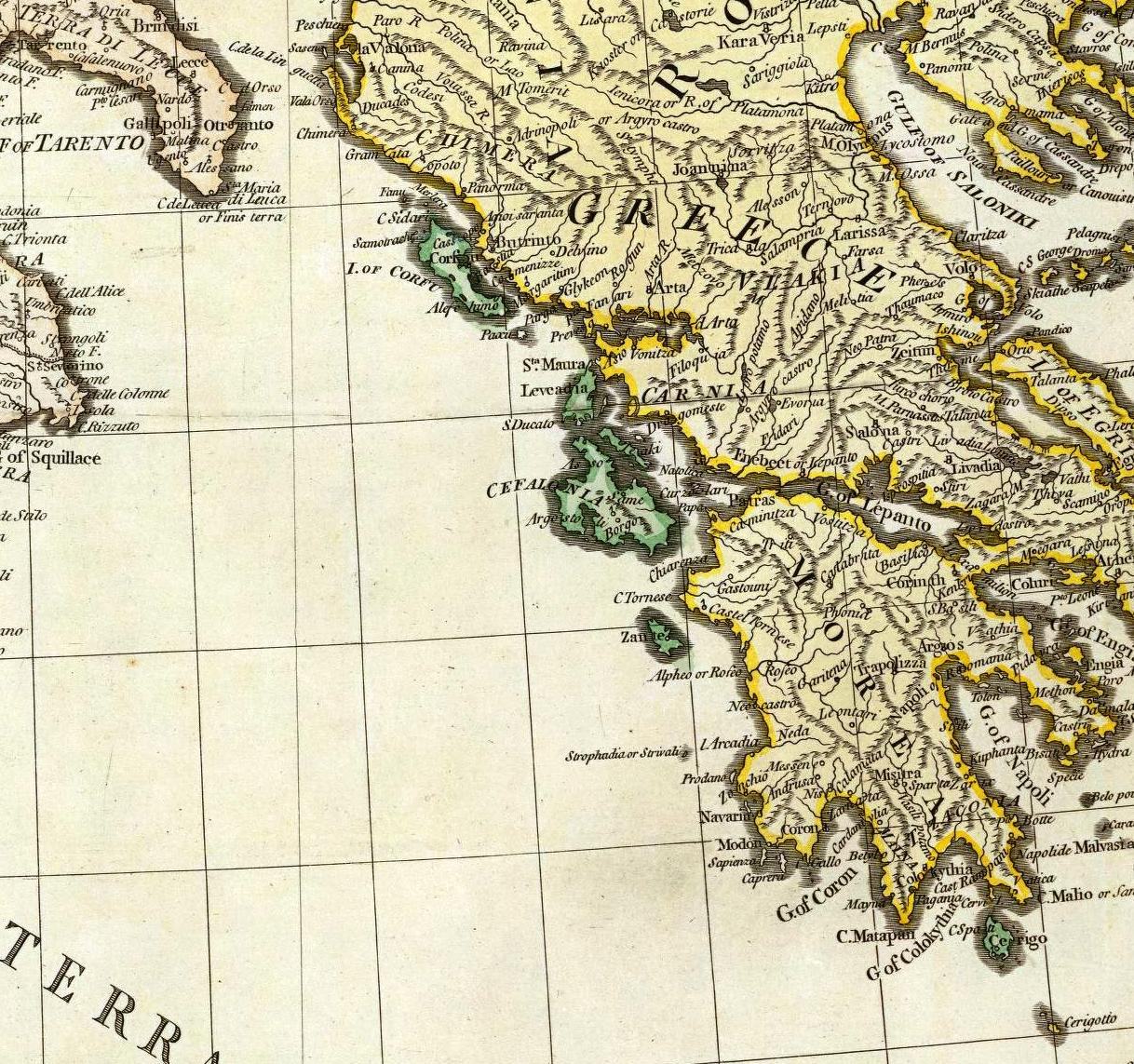 (Composite of) A map of the Mediterranean Sea with the adjacent regions and seas in Europe, Asia and Africa. By William Faden, Geographer to the King. London, printed for Wm. Faden, Charing Cross, March 1st, 1785.